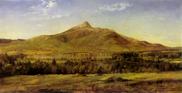 Mount Chocorua and Lake from Tamworth, New Hampshire